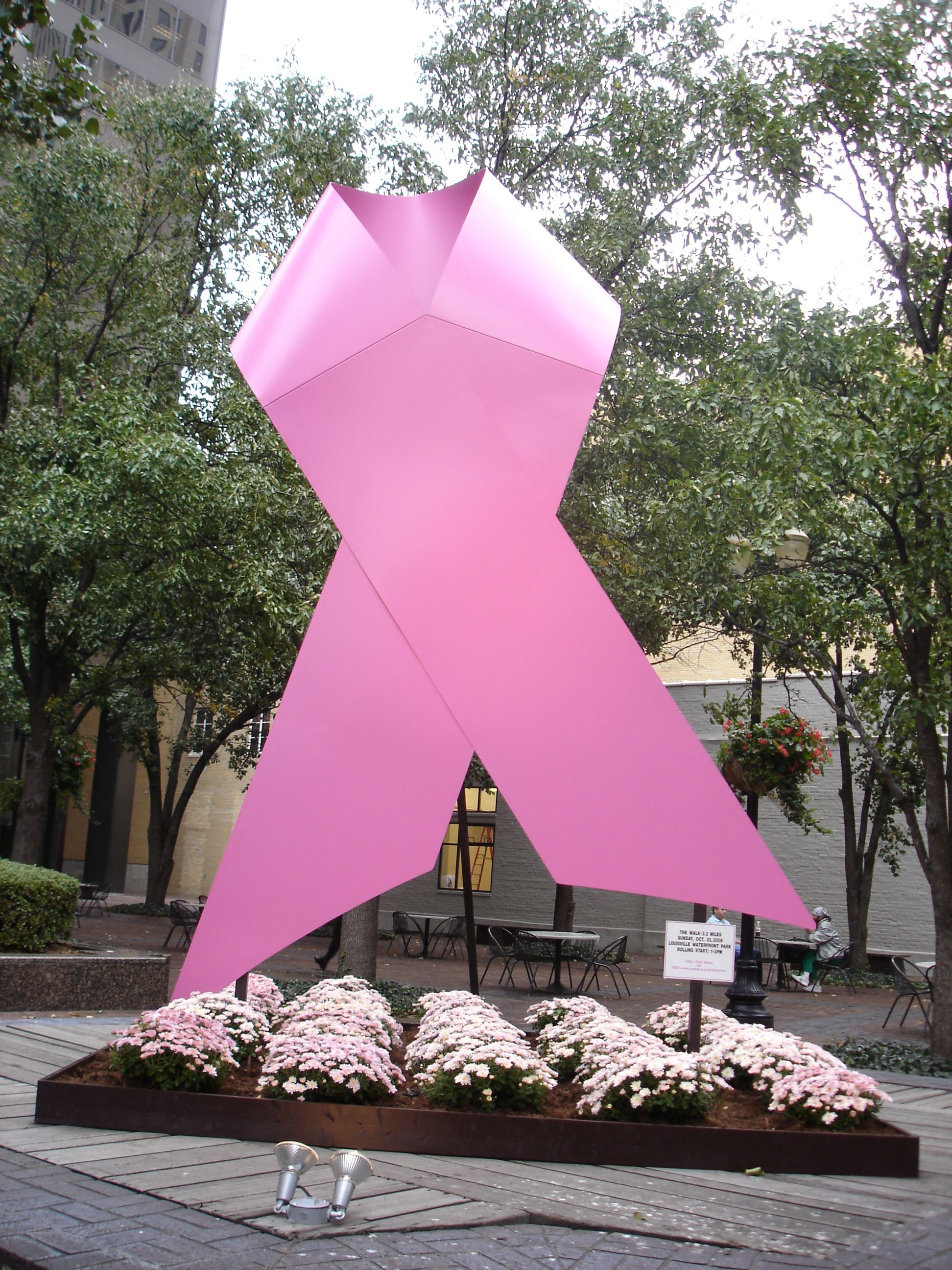 Giant pink ribbon on the corner of 5th and Market, downtown Louisville, KY (10-5-06)